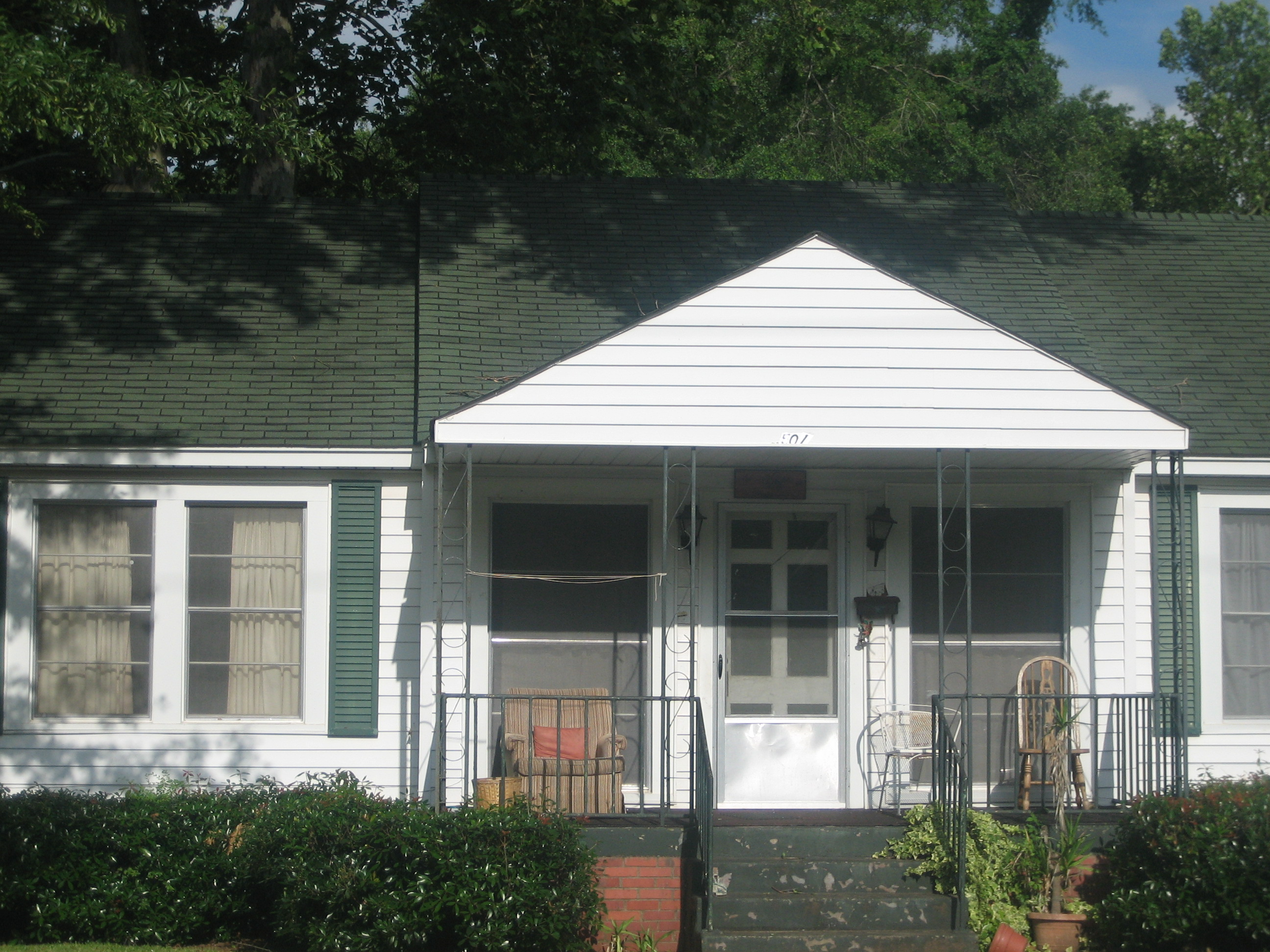 I took photo on May 22, 2009.Billy Hathorn (talk) 02:41, 29 May 2009 (UTC)